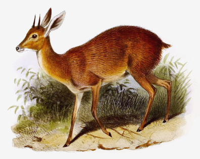 Illustration of a Cape grysbok ram in the The Book of Antelopes (1894)